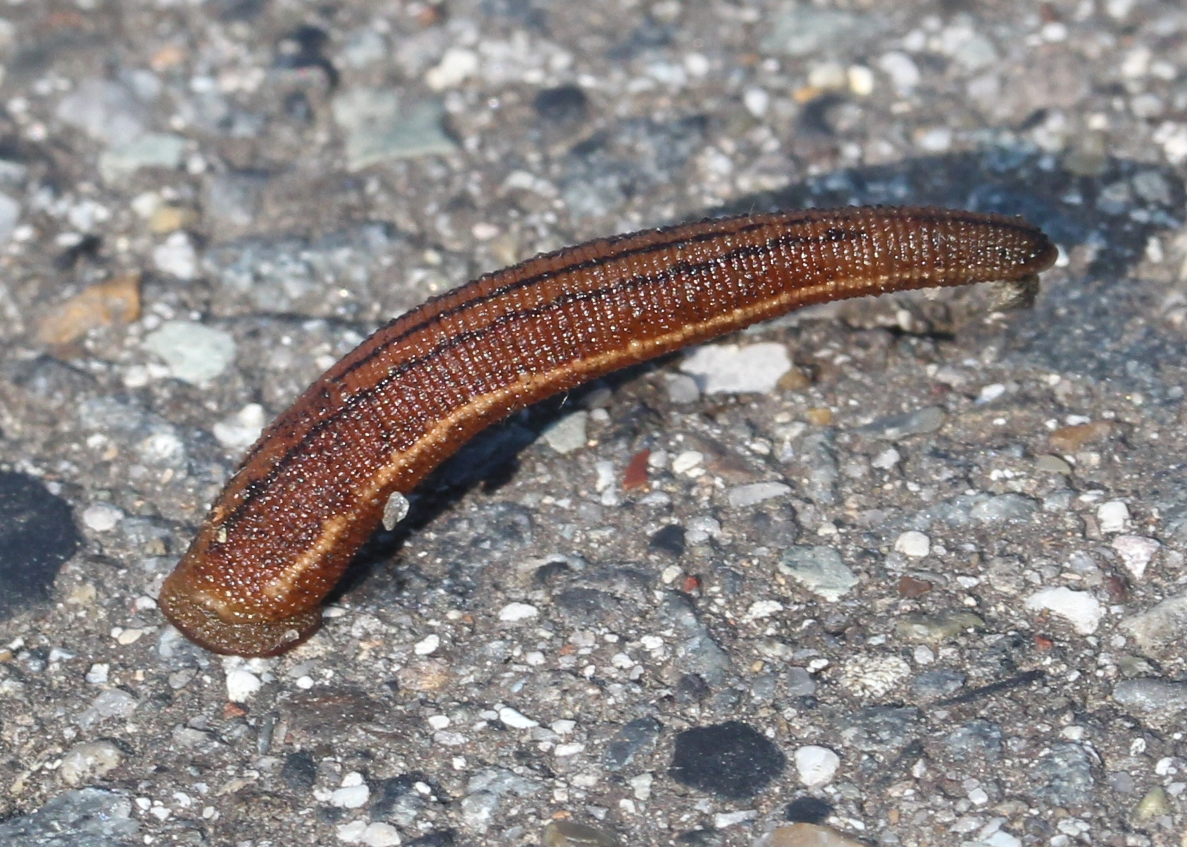 Haemadipsa zeylanica japonica in Mount Fujiwara of Suzuka Mountains, Inabe, Mie prefecture, Japan.